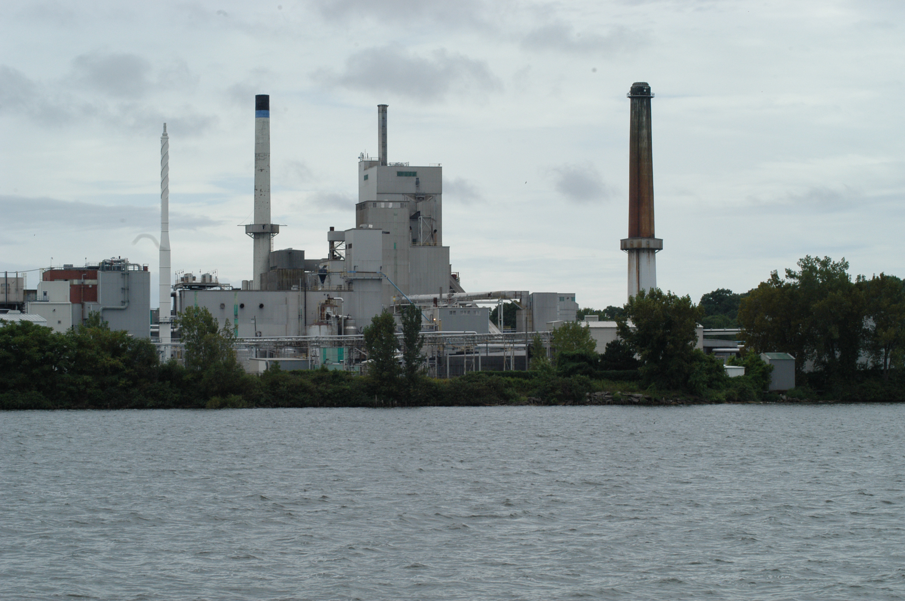 Paper factory. Muskegon Lake. September1, 2010. NOAA.